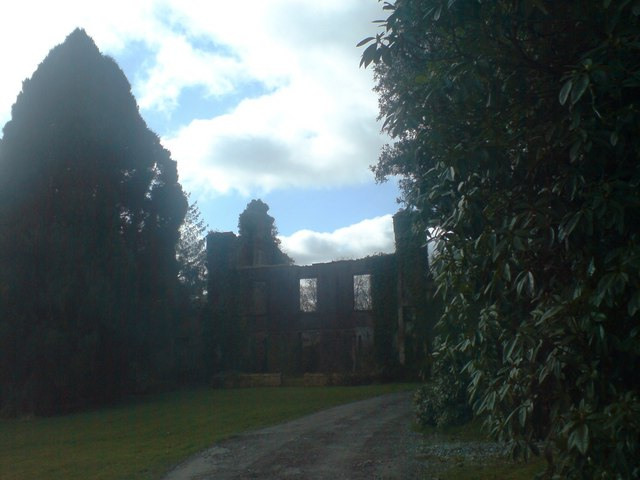 Plas Crwd ruin in Llanddewi Velfrey Parish Having taken the wrong path I drove through manicured grounds that could have passed for being ecclesiastical and rounded the bend to see these ruins, Plas Crwd, once a manor house. The lane continued beyond to open out into a spectacular courtyard where there were horses, cats and dogs, and habitated. On return, I had to find out a bit more about this lovely place. The George family lived there in the C19th and Fanny Margaret George married Thomas Reece Thomas of Llanboidy c1796-1883. He was connected to the Willy family of Lampeter Velfrey and a surgeon of Haverfordwest. Their son was Tudor Vaughan Howell Thomas 1852-1906. Link for info on the grounds. The 1907 OS map for Carmarthenshire XXXVi Sheet 16 lists an arboretum; woodland; shrubbery; lodge; gatehouse; hawhaw; house; conservatory; walled garden; carriage drive and parkland. I don't know when Plas Crwd fell into ruin.